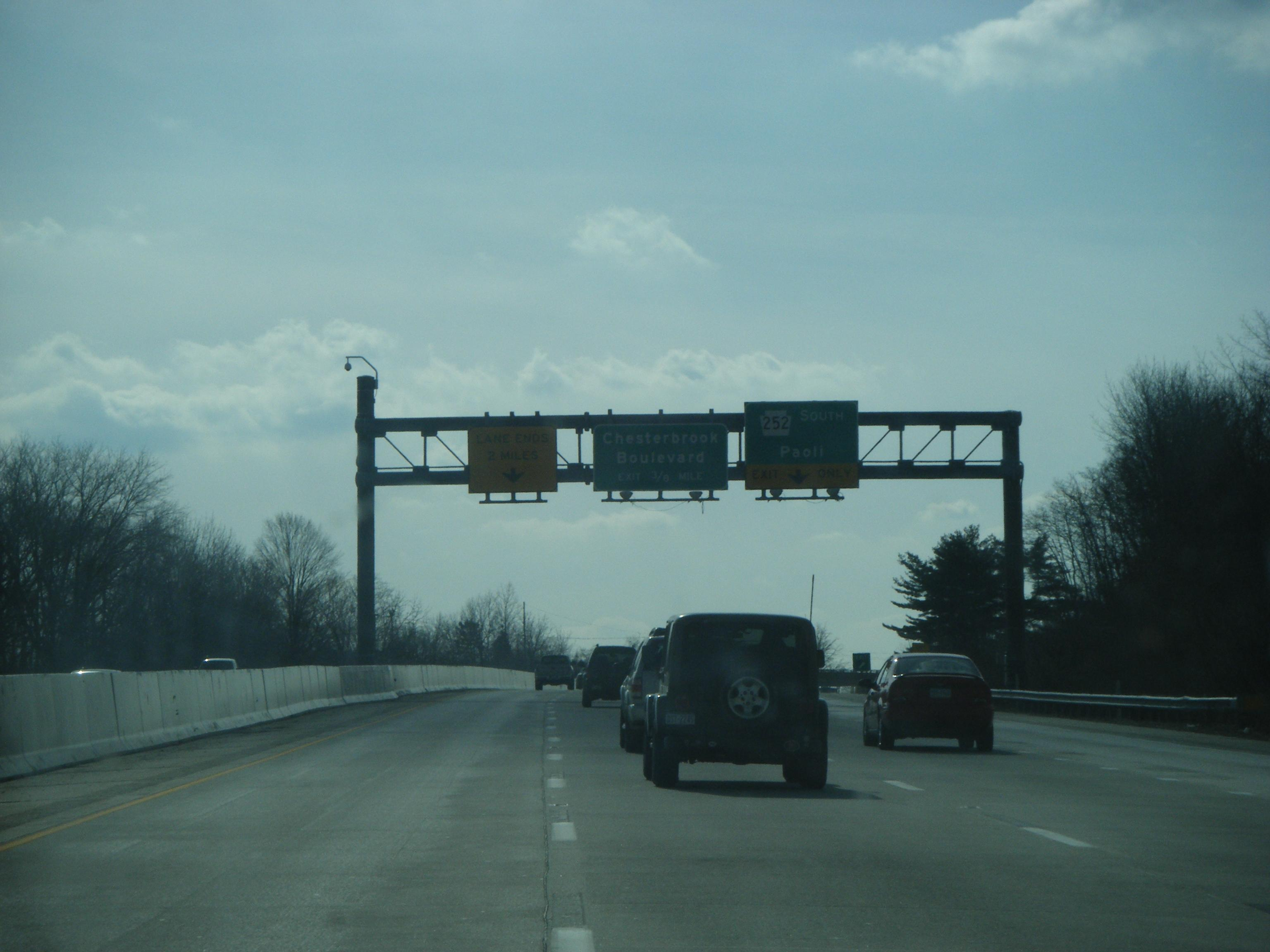 Southbound U.S. Route 202 at the exit for southbound Pennsylvania Route 252 in Tredyffrin Township, Pennsylvania